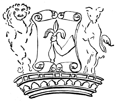 Arms of Mohun (ancient) sculpted on gatehouse of Mohuns Ottery house, Devon: Gules, a maunch ermine the hand argent holding a fleur-de-lis or